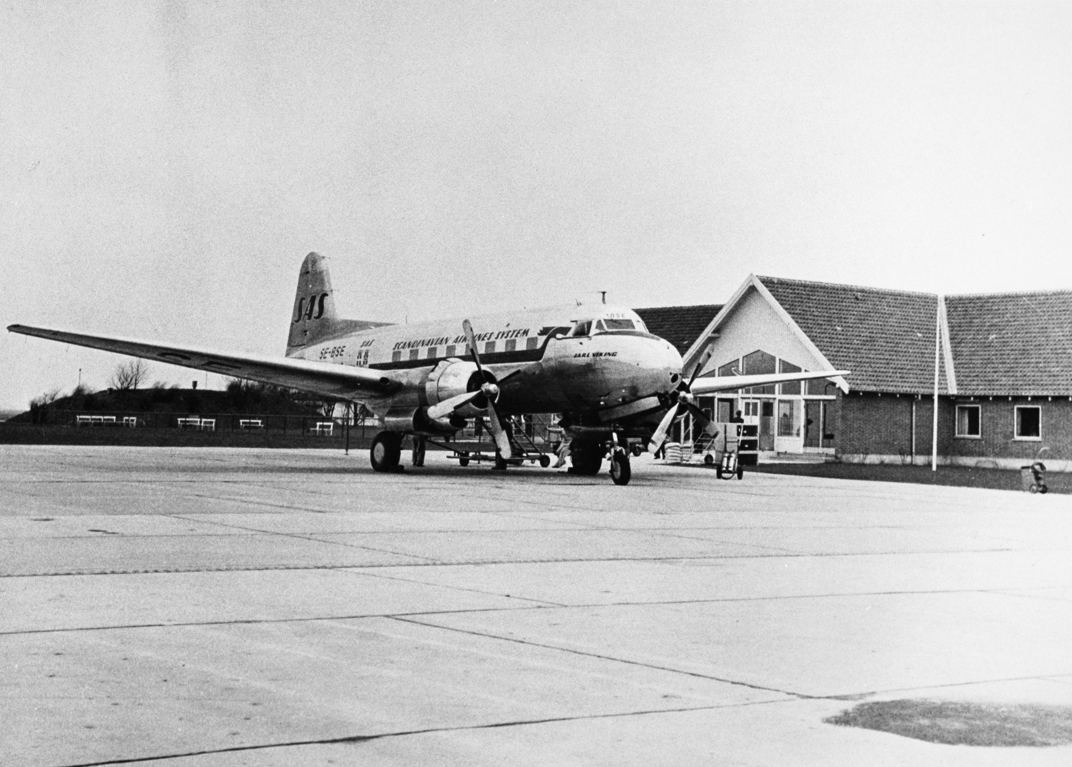 Aalborg Airport AAL, Denmark. Jarl Viking, SE-BSE, Saab 90 Scandia. The 32-seat Swedish-build aircraft is seen at Aalborg airport.